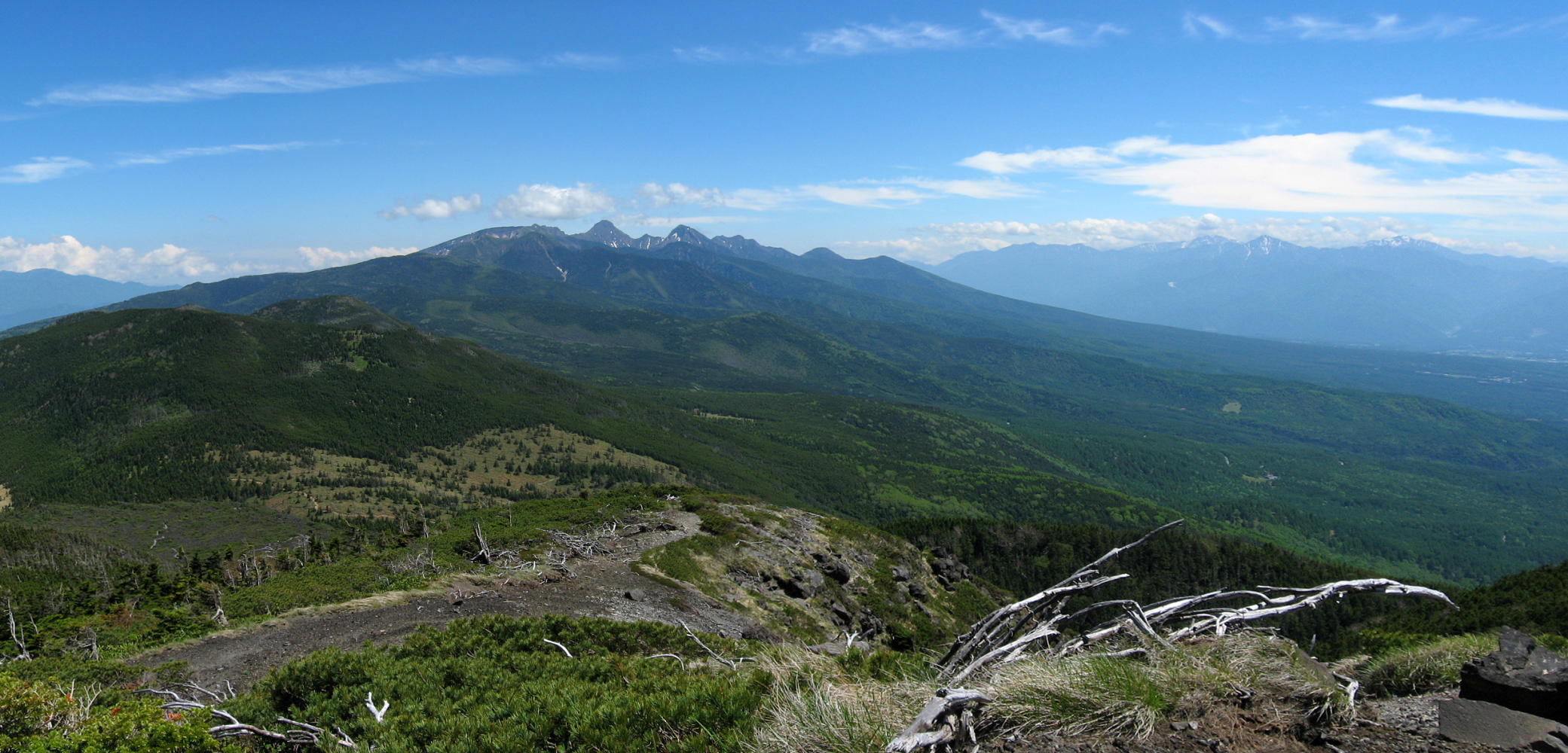 Southern Yatsugatake Mountains seen from Mount Kitayoko